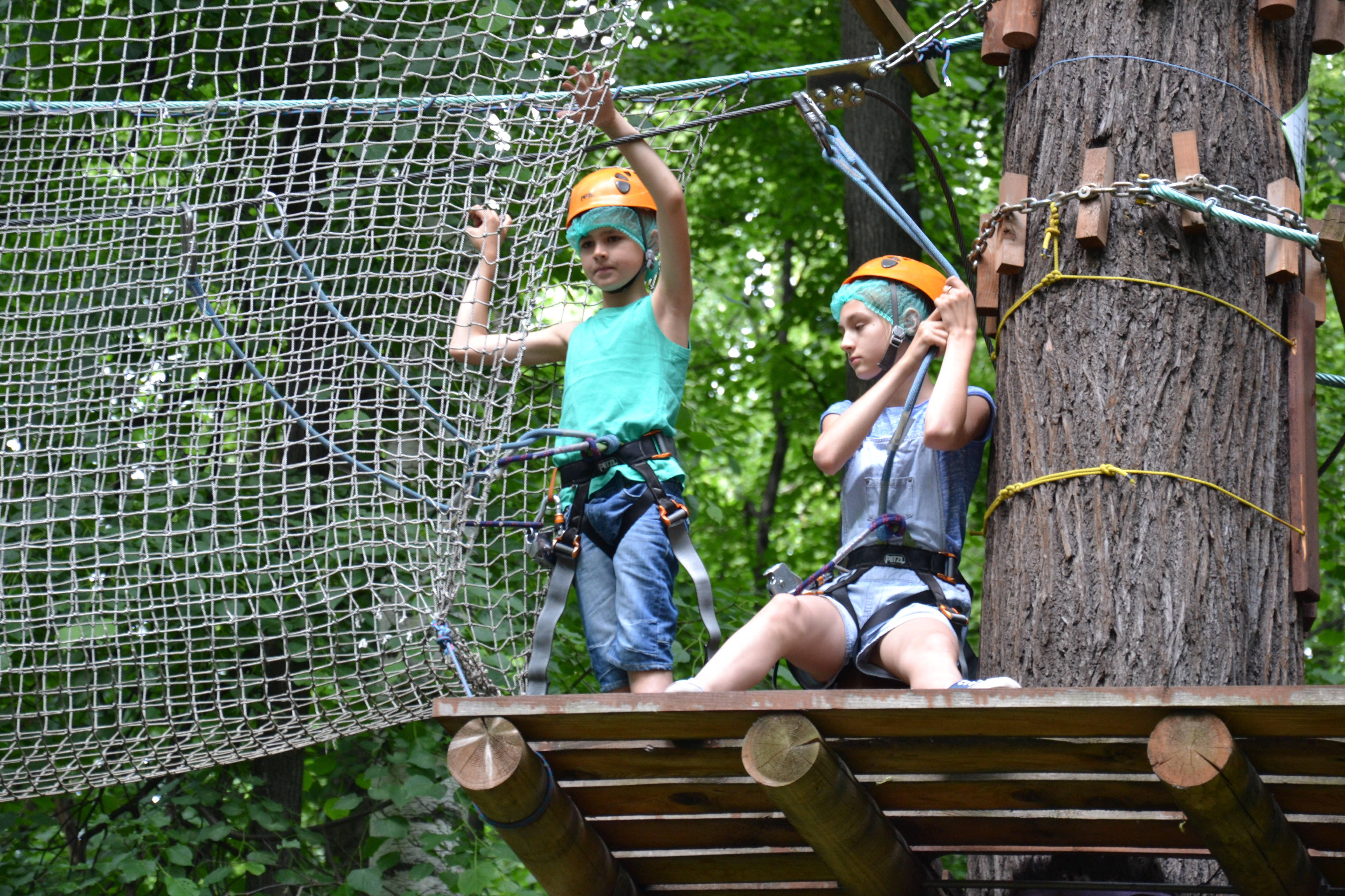 Panda park, Moscow